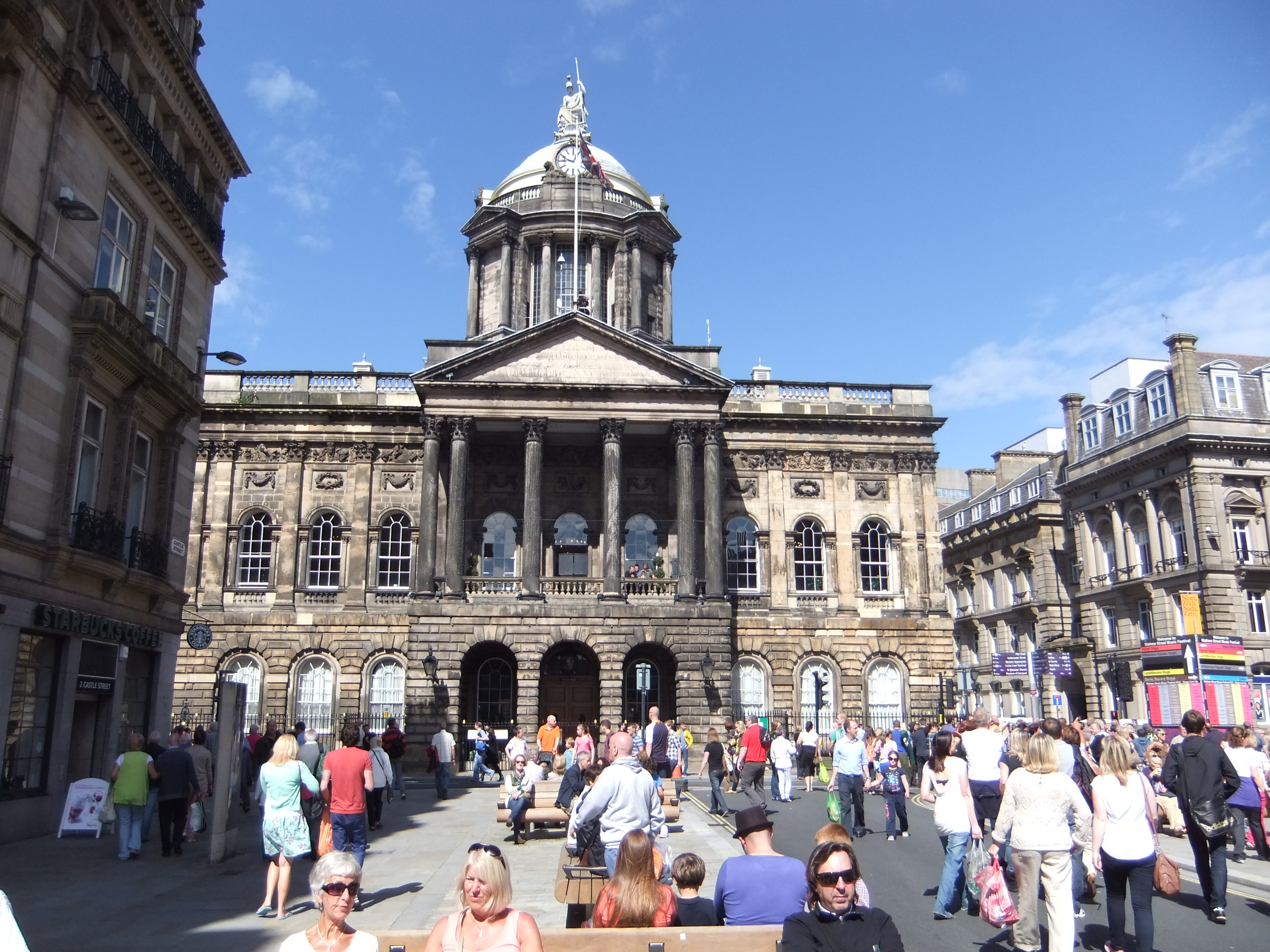 Photo taken at the 2012 Mathew Street Festival, Liverpool, England.